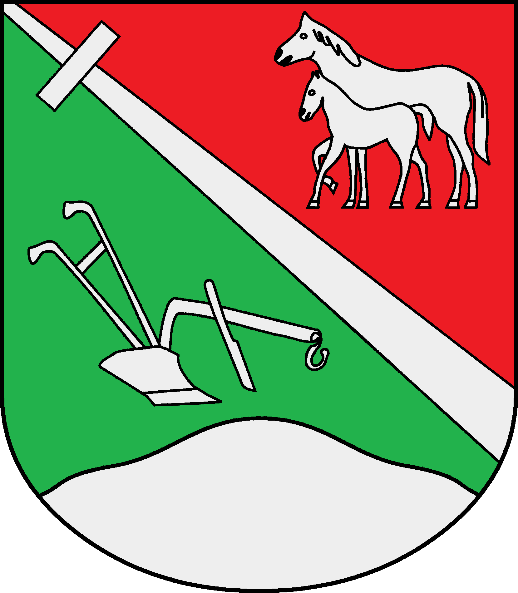 Coat of arms of the municipality Kastorf in Schleswig-Holstein, Germany.